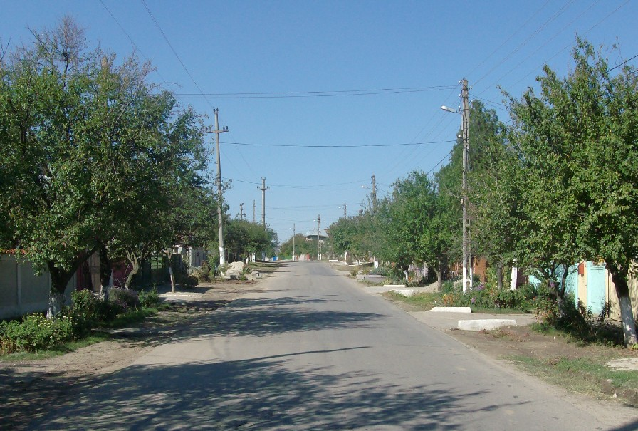 Main street (Str. Micsunelelor) in Dragomireşti Vale, Romania. October 2007